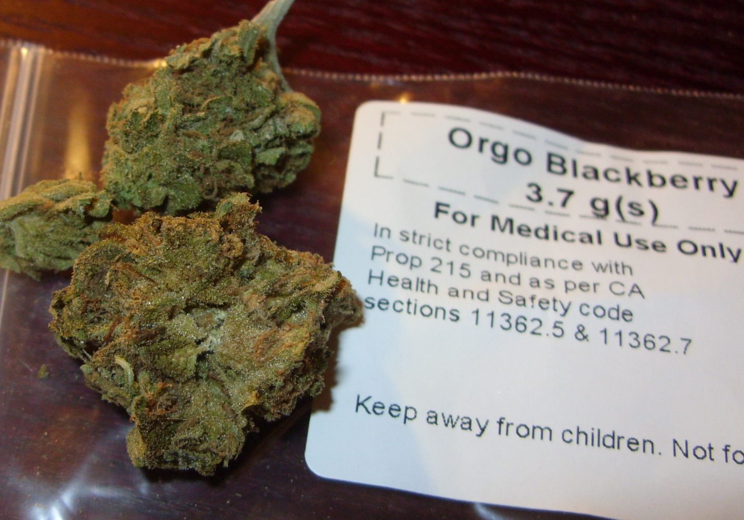 Organic cannabis Indica purchased from a Medical Cannabis dispensary per California Proposition 215/Amendment #420/ Health and Safety code 11362.5 and 11362.7